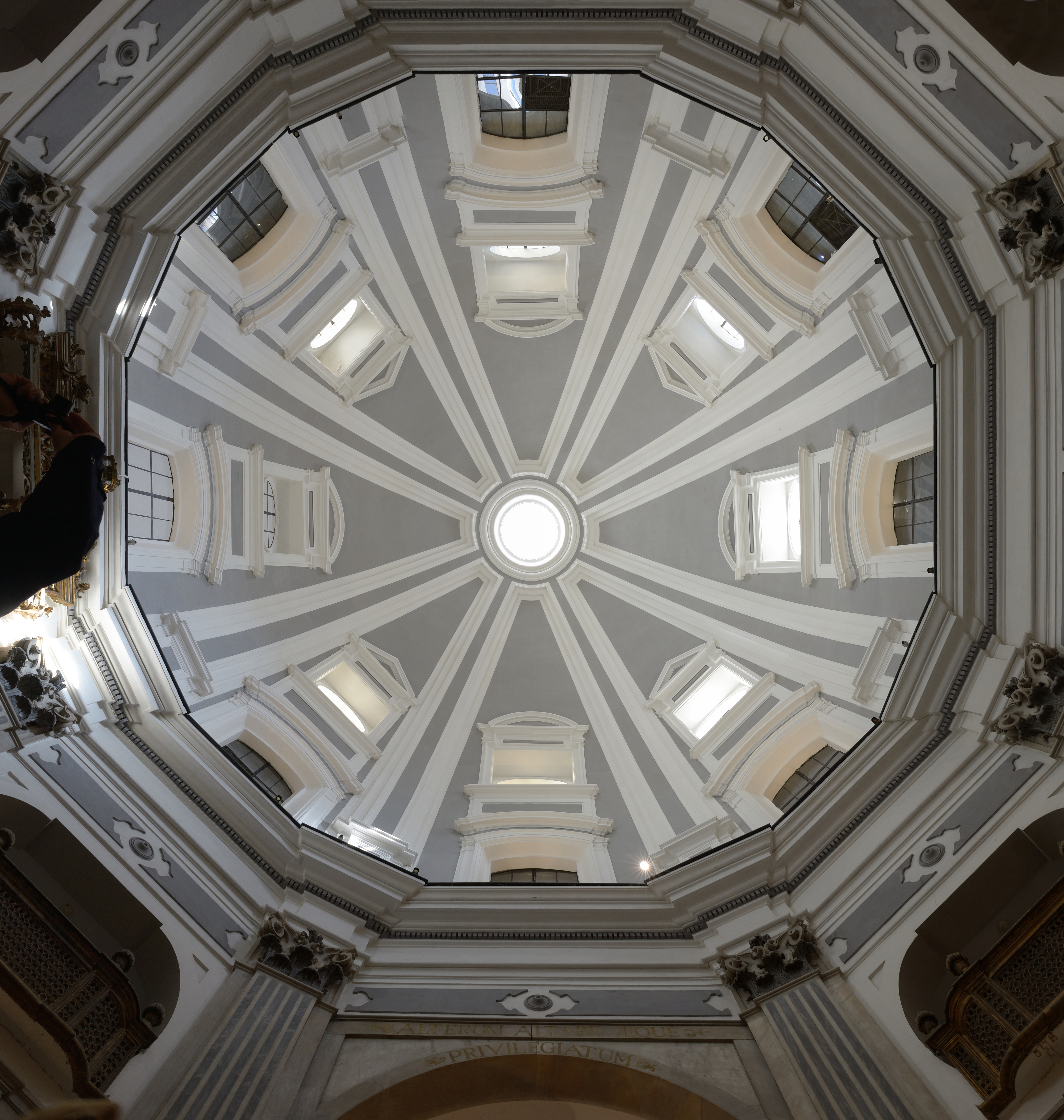 The Pio Monte della Misericordia church in Naples.